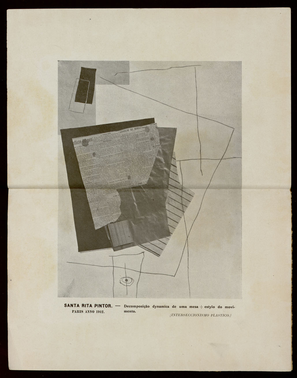 Work by Guilherme de Santa-Rita, 1912 (published in Orpheu 2, 1915)